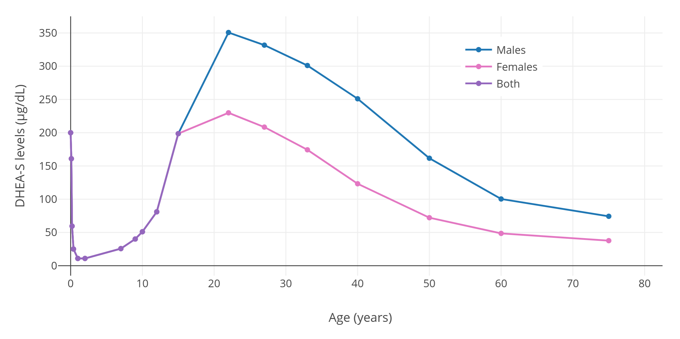 Dehydroepiandrosterone sulfate (DHEA-S) levels from birth to age 75 in human males and females. Source of the values: Mark A. Sperling April 2014 Pediatric Endocrinology E-Book, Elsevier Health Sciences, pp. 485– ISBN: 978-1-4557-5973-6.